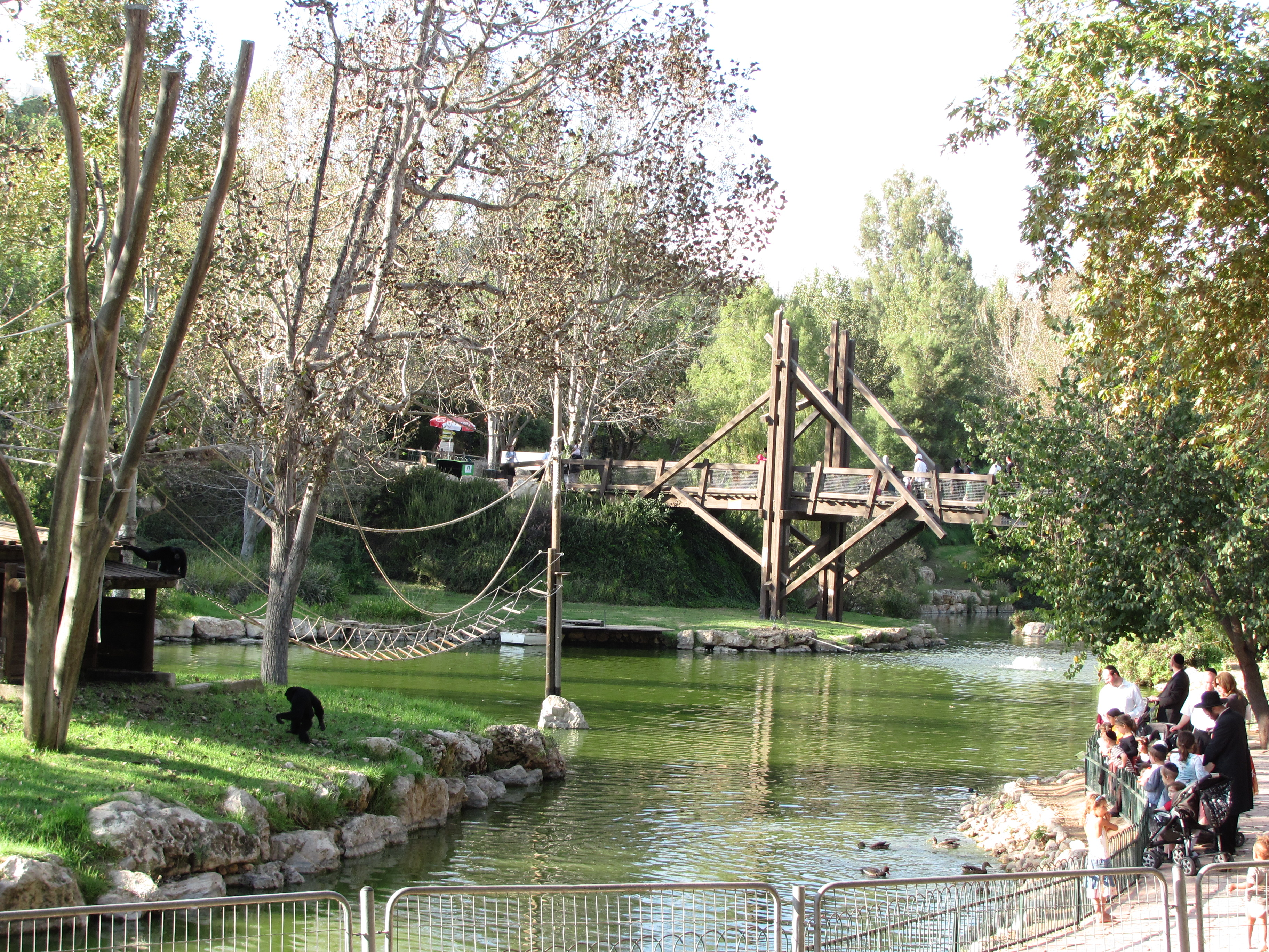 Artificial lake at the Jerusalem Biblical Zoo. Visitors (right) look at the Siamung monkey island (left) on the lake.